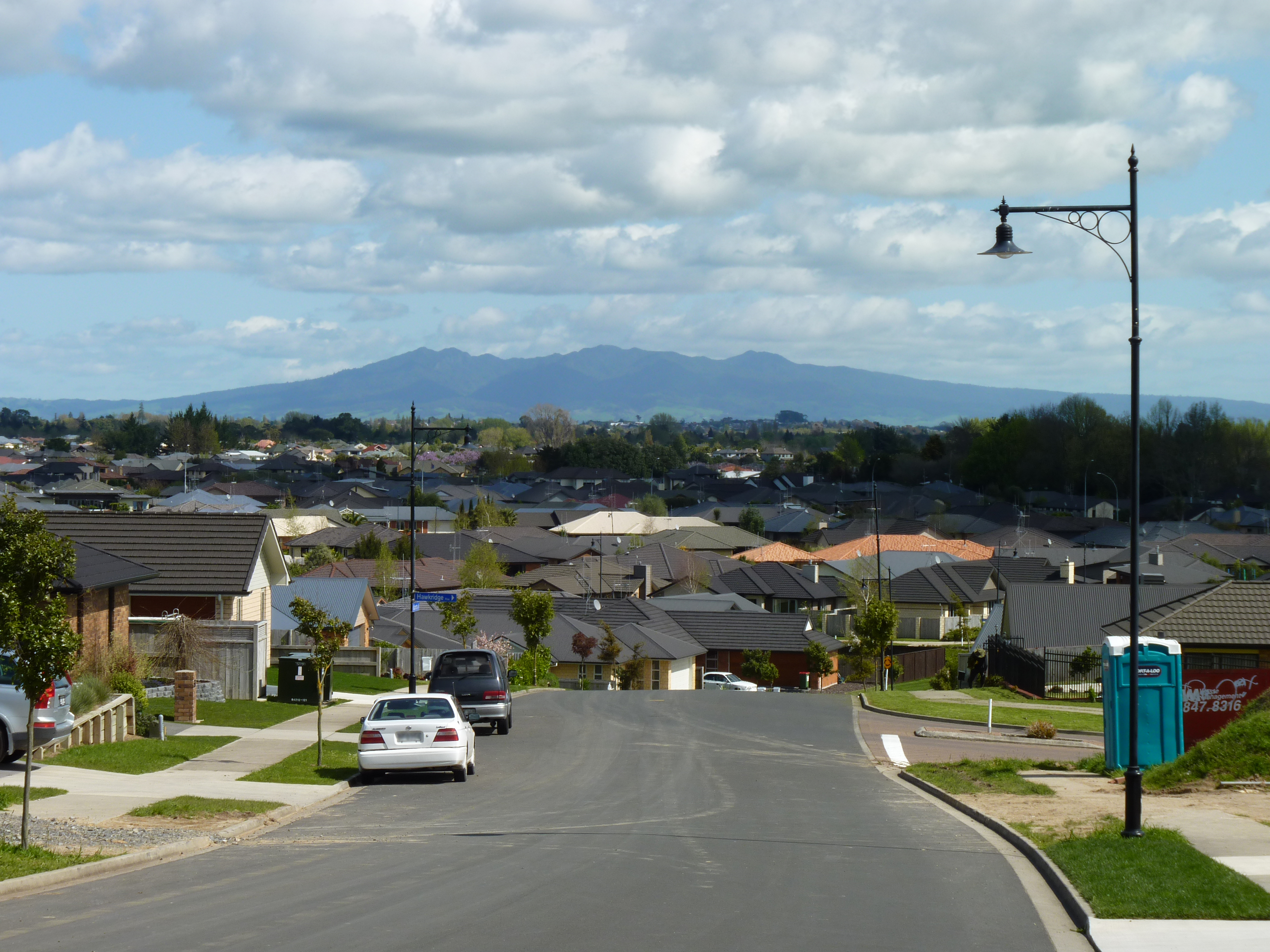 Somerset Heights in northeast Hamilton. Mount Pirongia in the distance.